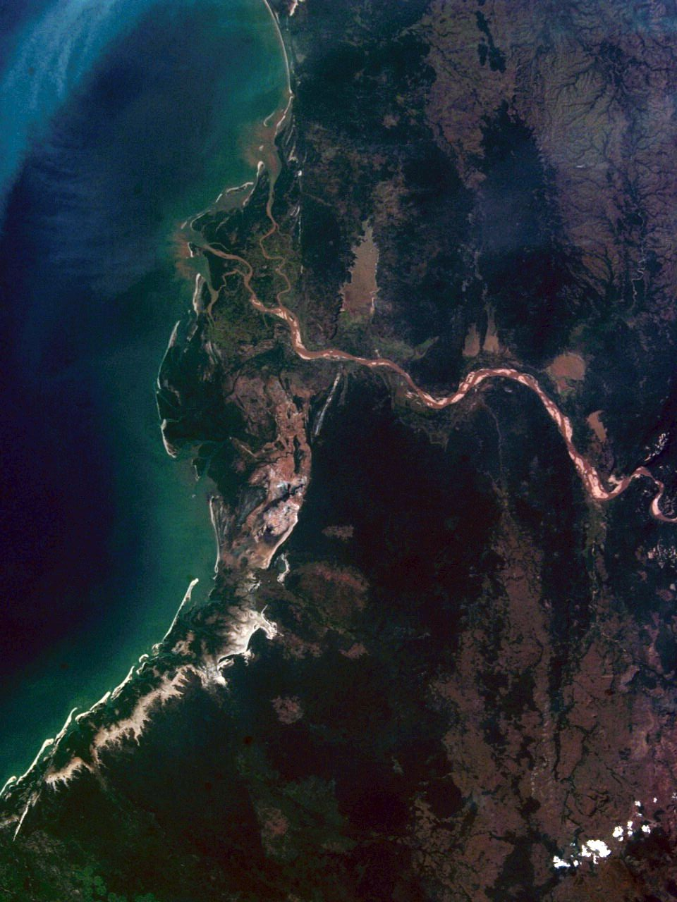 Tsiribihina River Delta, Madagascar - May 2005